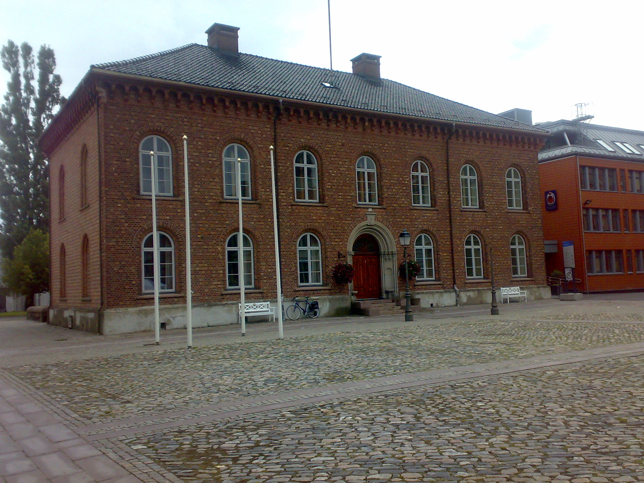 City Hall, Kristiansand, Norway